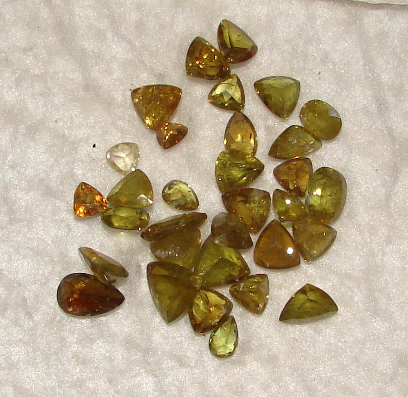 Titanites from Capelinha, Minas Gerais, Brazil. Gem cutting by Afonso Marques